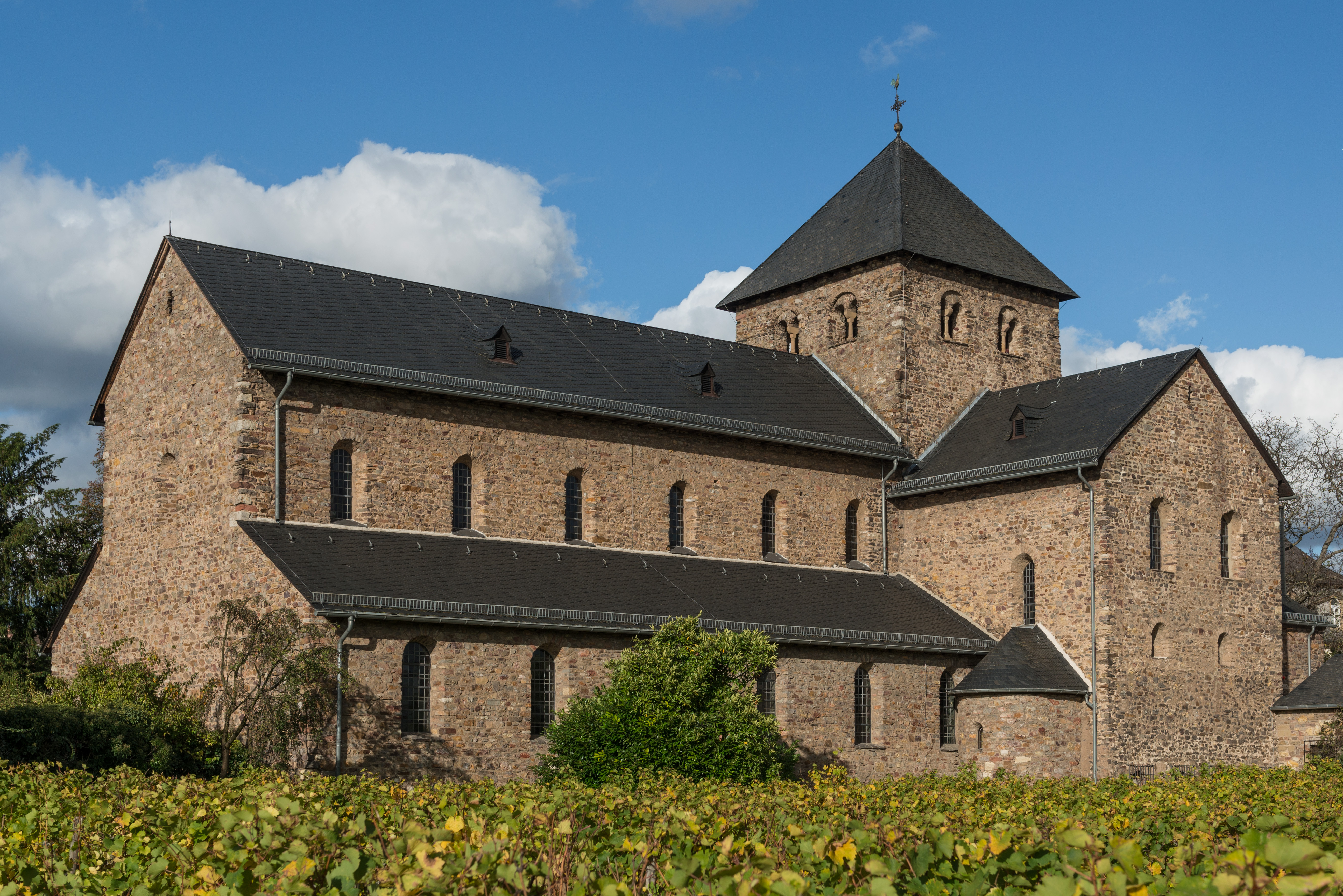 The medieval church St. Aegidius in Mittelheim, Oestrich-Winkel